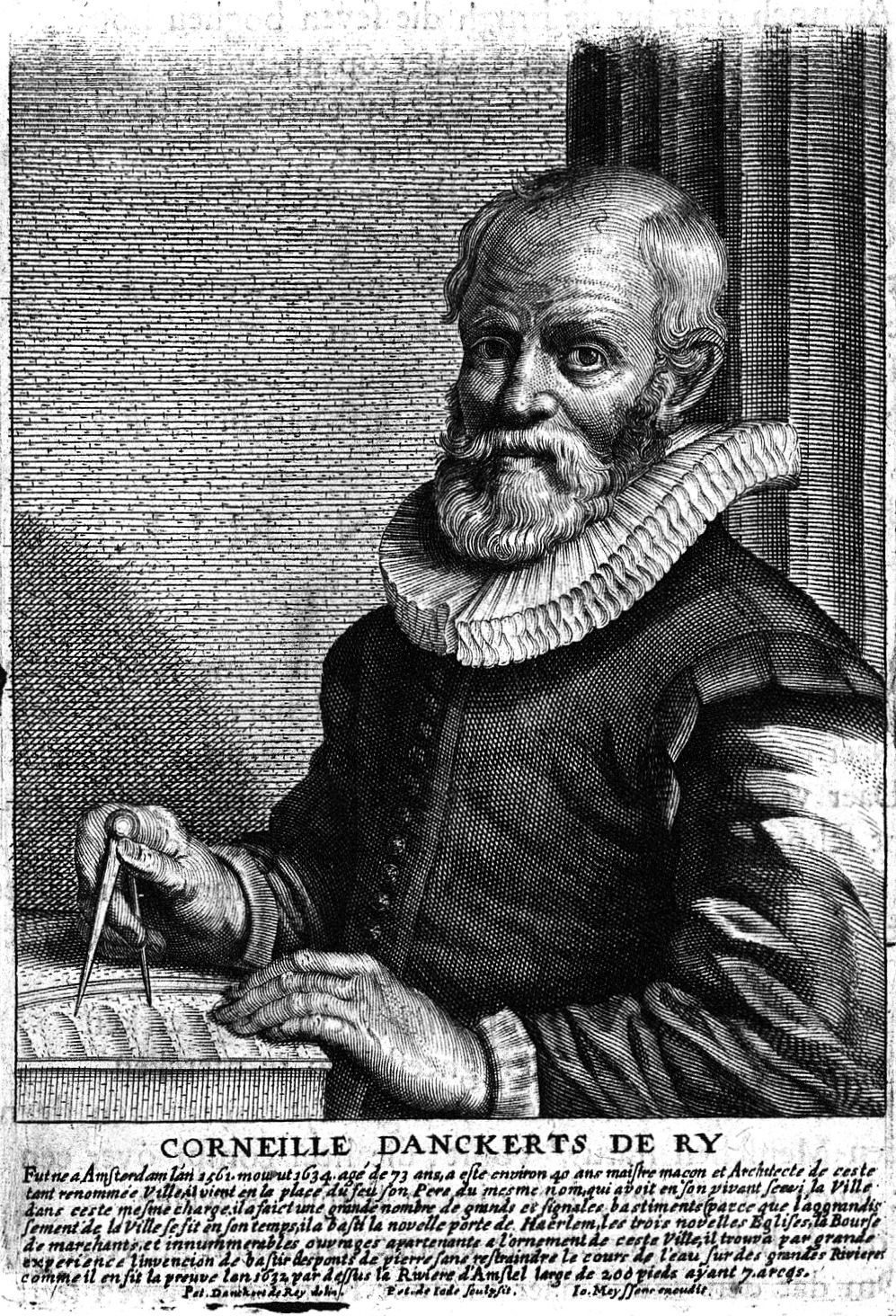 Het Gulden Cabinet, painter biographies by Cornelis de Bie for the Antwerp publisher-engraver Jan Meyssens, 1662 Cornelis Dankerts de Ry p 447